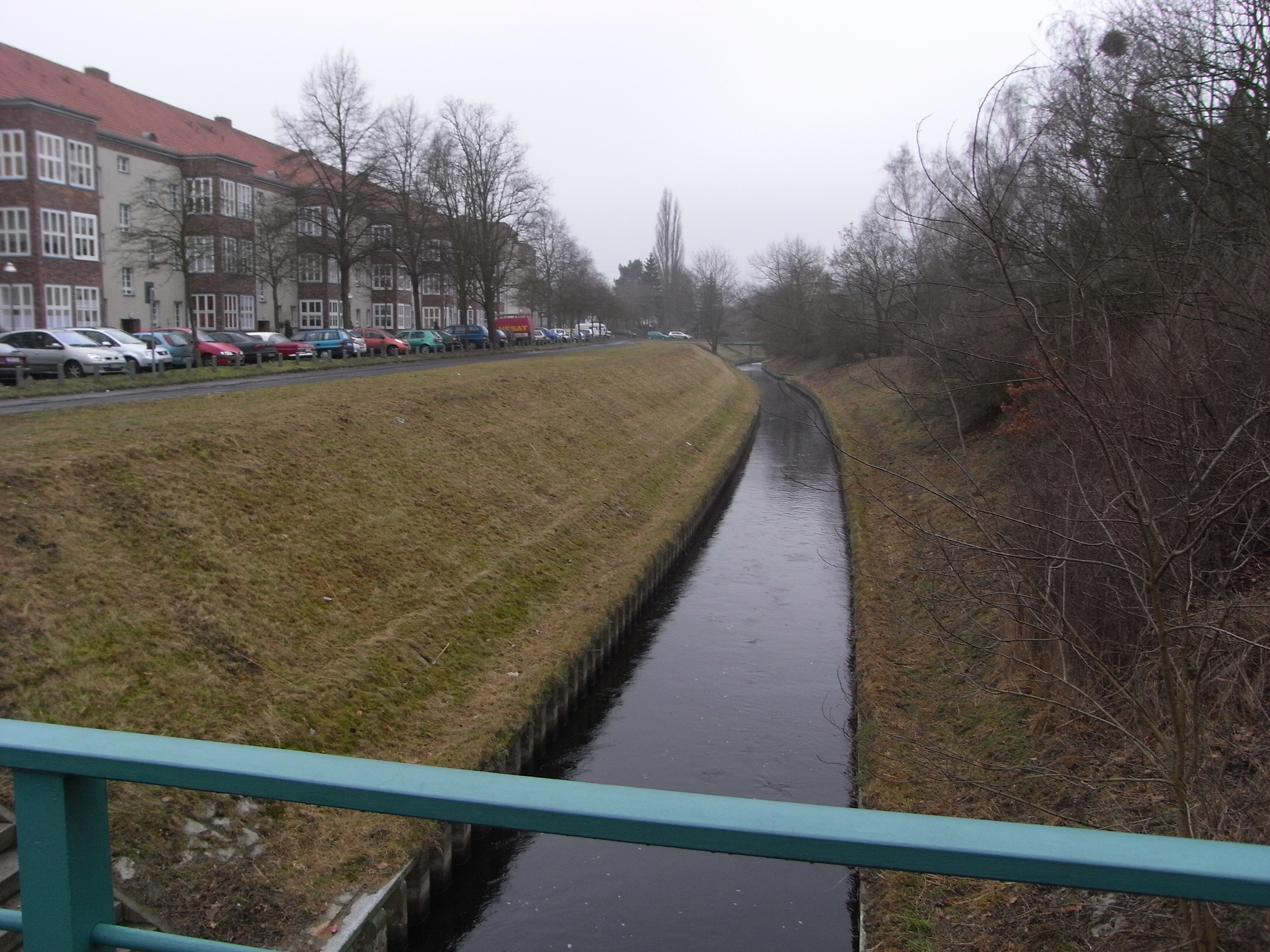 Water body Nordgraben near Havelmüllerweg in Berlin